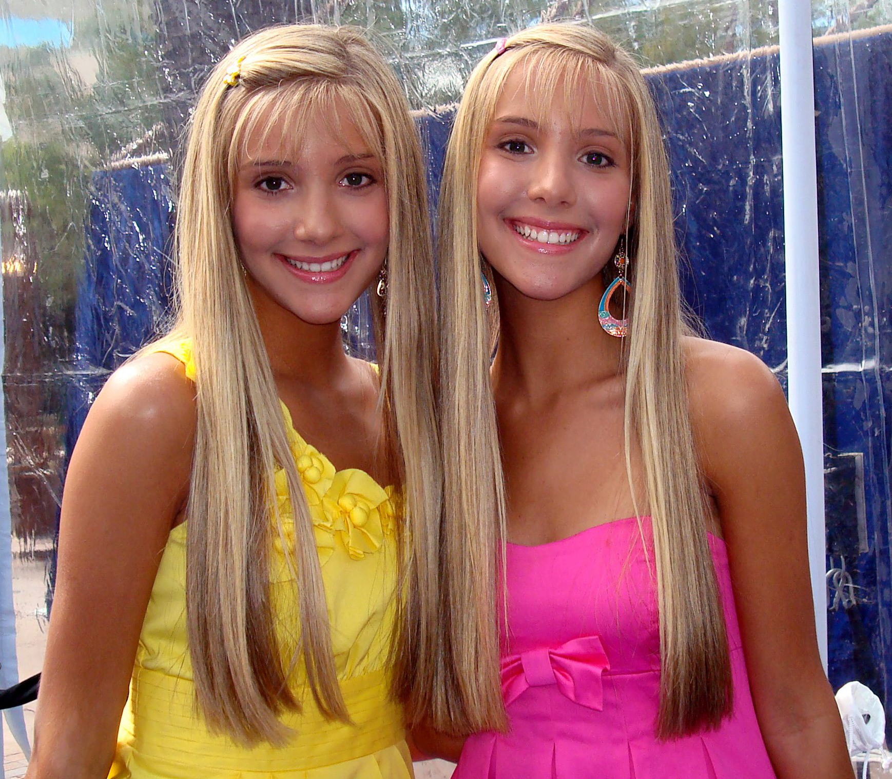 Camilla and Rebecca Rosso at the Monsters vs Aliens screening at the Gibson Amphitheatre in Los Angeles.